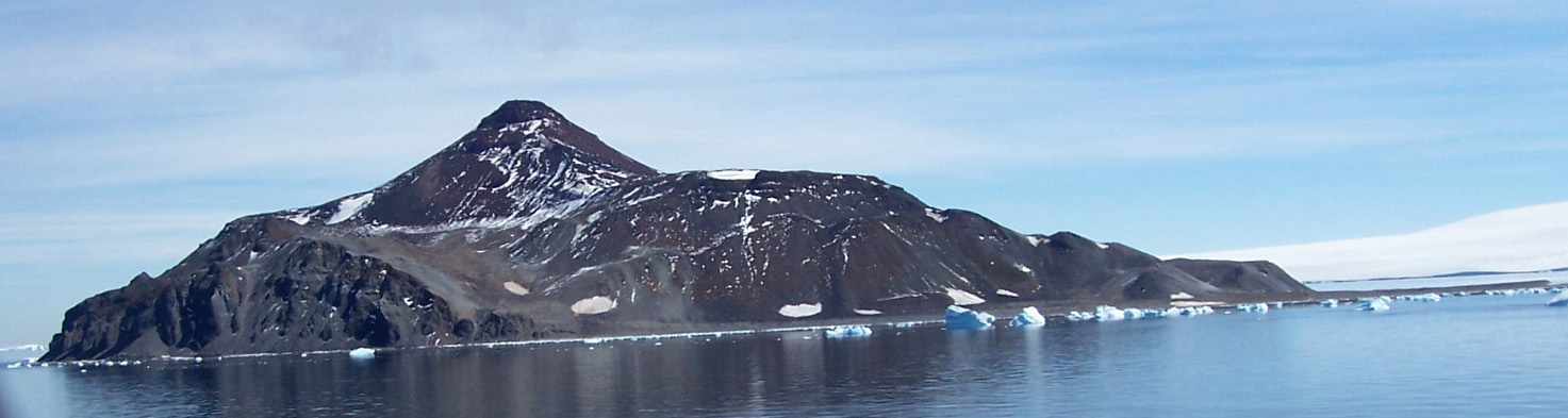 Photo of Paulet Island, Antarctica